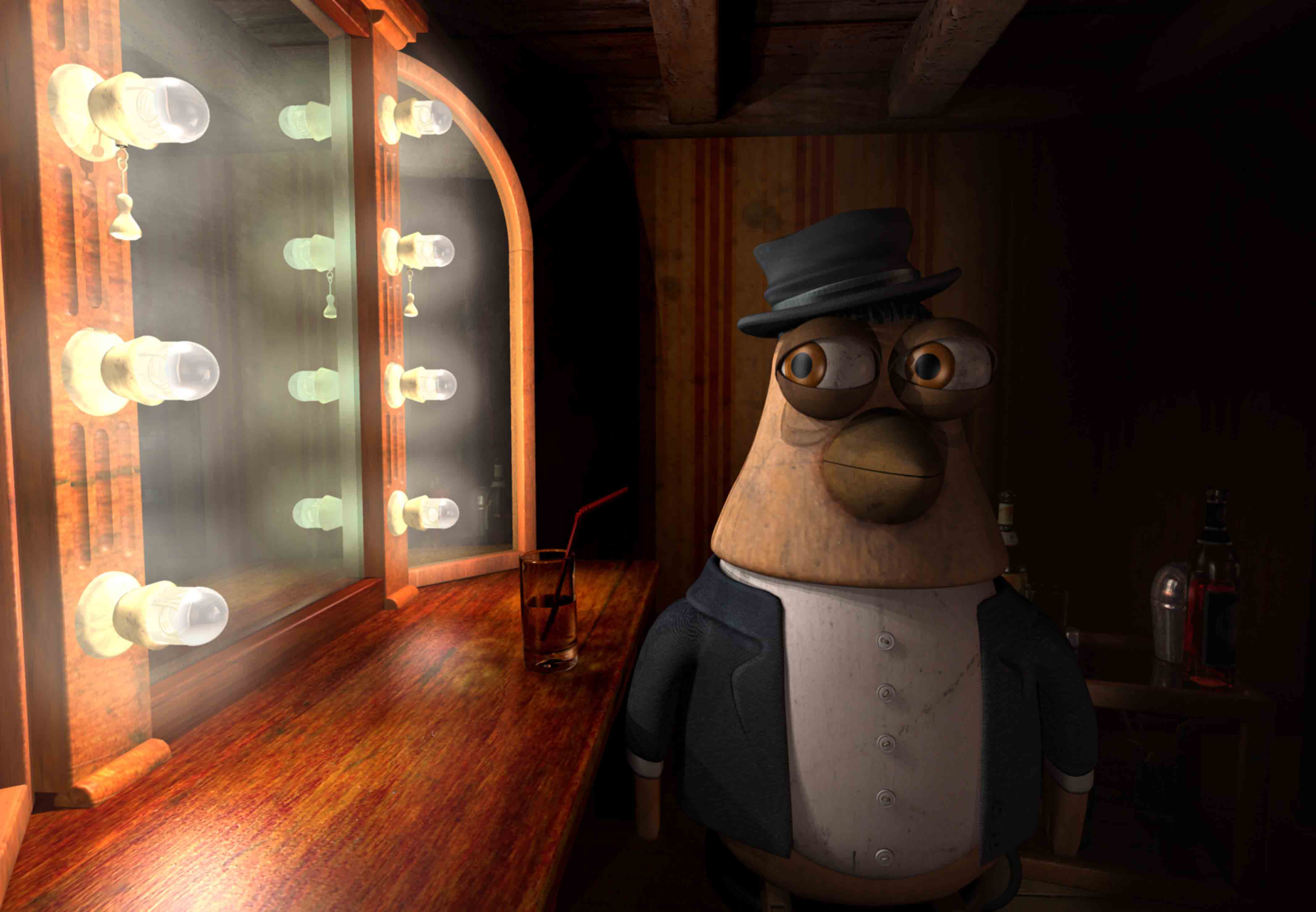 Still from Oscar nominated animated short movie, Maestro